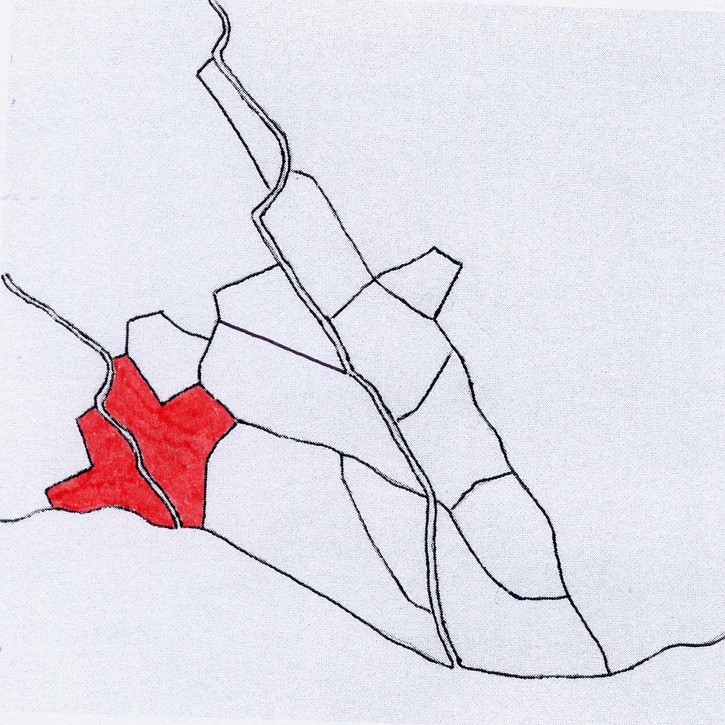 Mamayka microdistrict in Tsentralny City district of Sochi